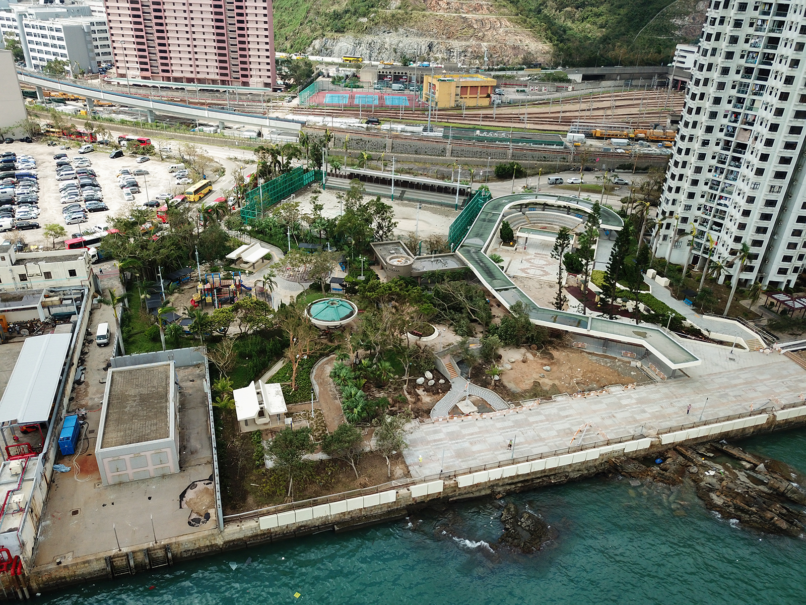 Heng Fa Chuen plastic on the floor after Typhoon Mangkhut